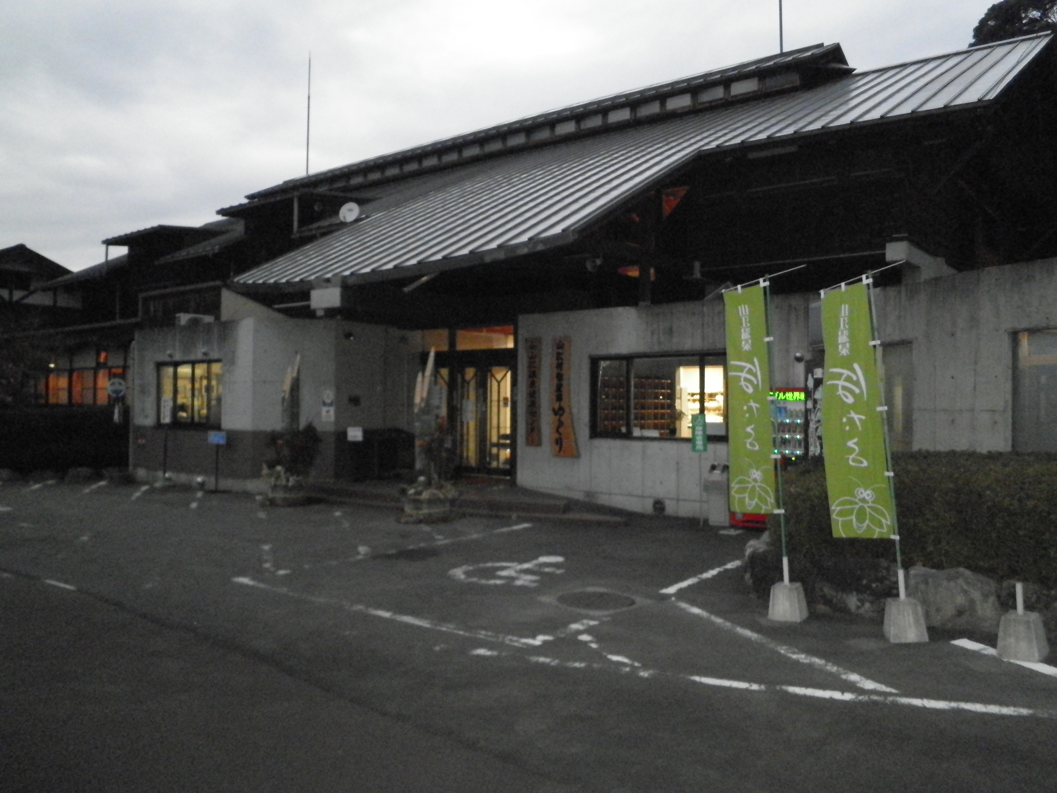 Yamae Onsen Hotaru. Yamae Village, Kumamoto Pref. Photo by tanuki. 2011-12-31.